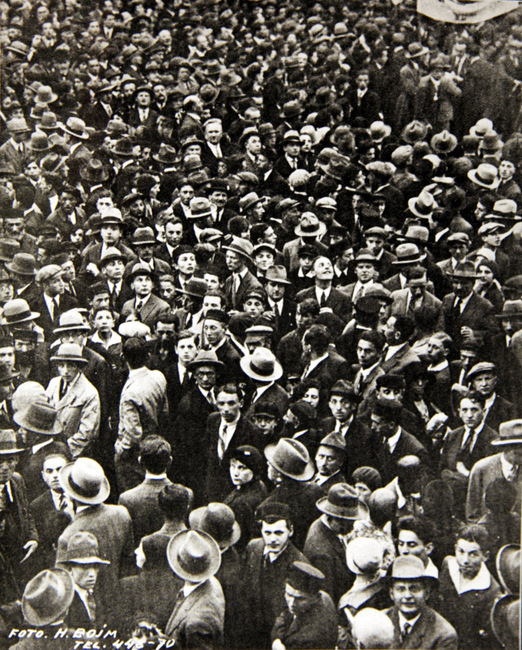 Protest against British restrictions on Jewish immigration to Palestine Demonstration of 50,000 Jews protesting British restrictions on Jewish immigration to Palestine, Warsaw, 1930